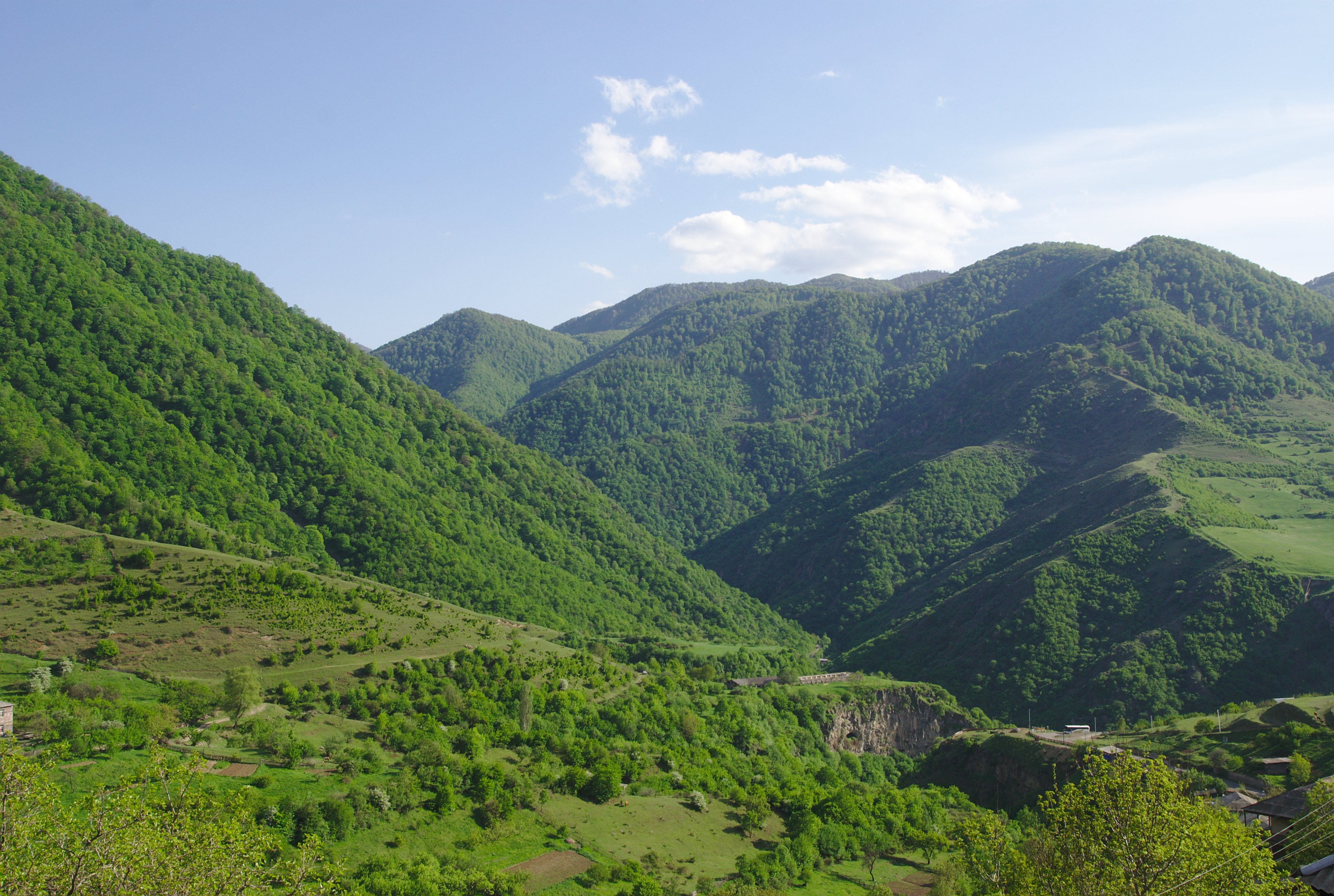 Haghpat village nature, Armenia.